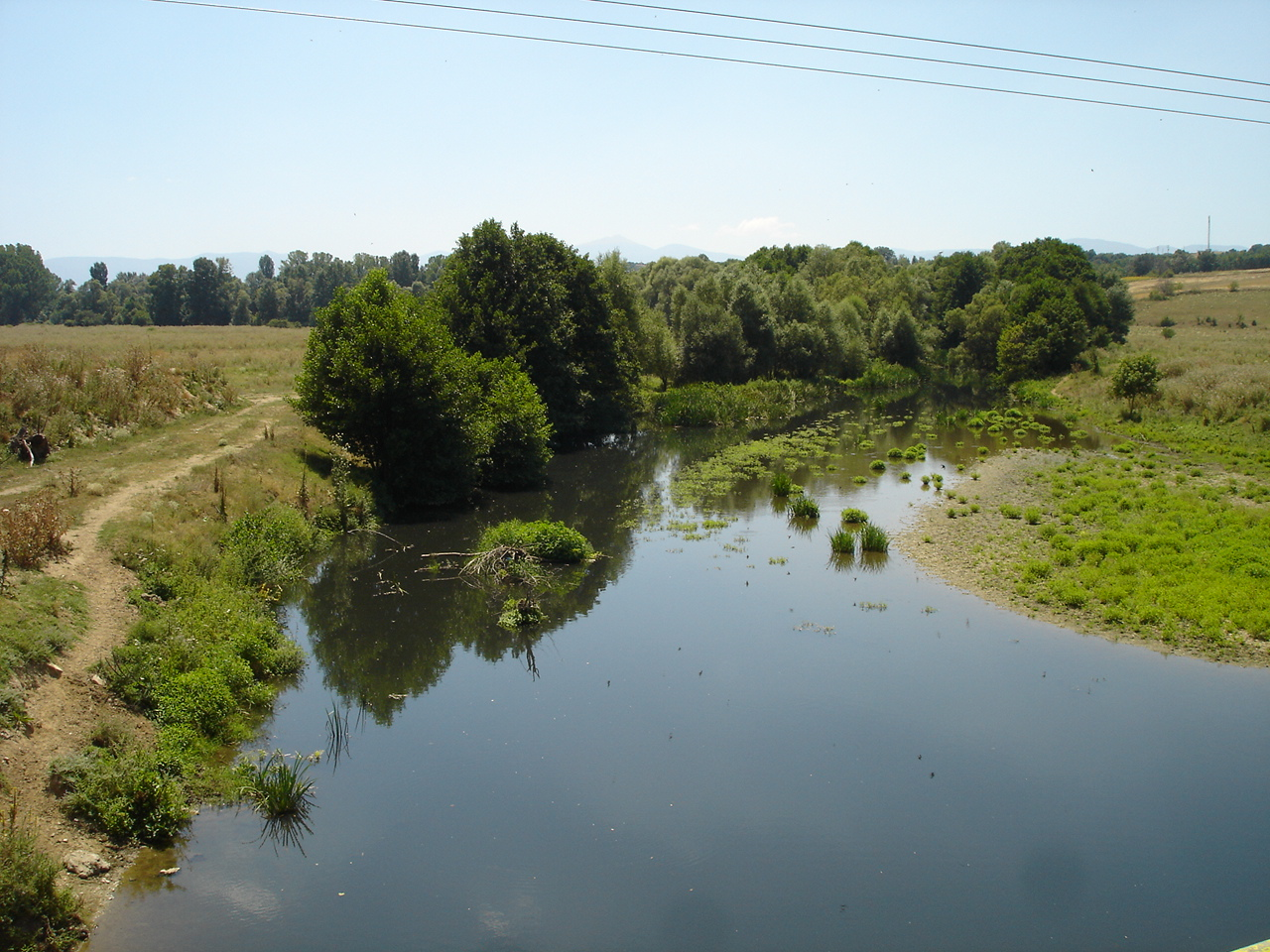 Jelashka (Sakoulevas) River between villages of Sakulevo (Marina) and Dolno Kleshtino (Kato Kleines) in Aegean Macedonia, Florina Prefecture, Greece